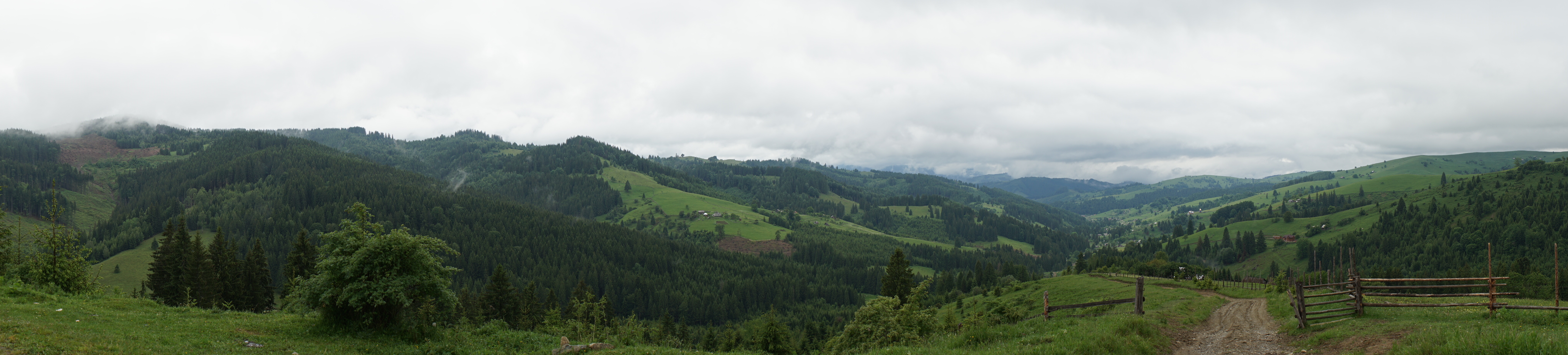 This is an image of the Biosphere Reserve: Carpathian Biosphere Reserve